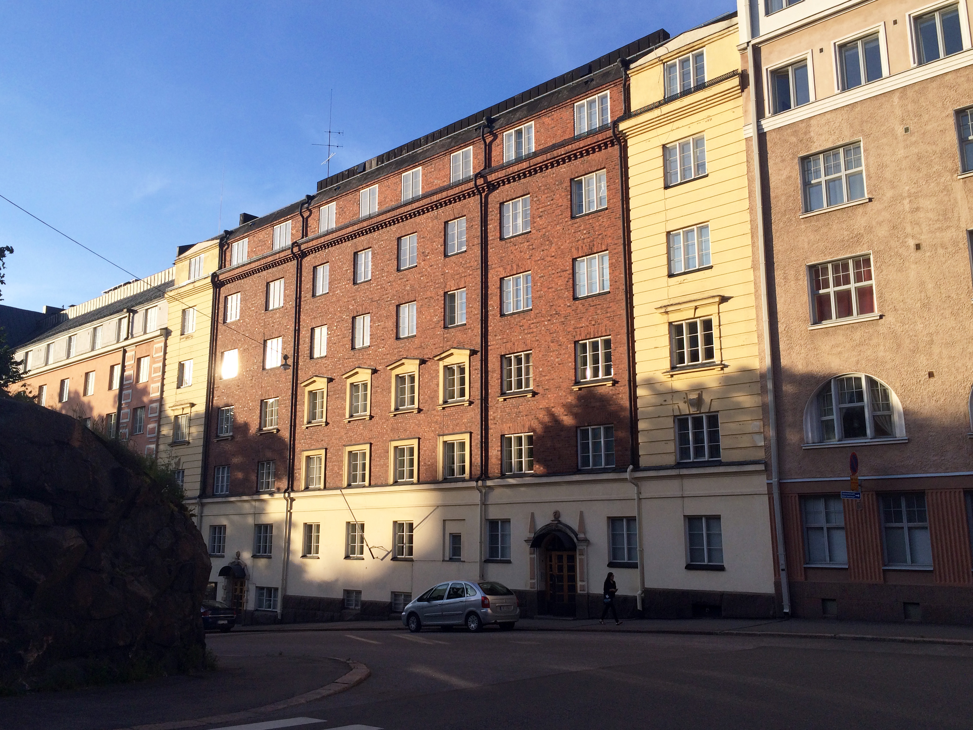 Nervanderinkatu street, Helsinki. The building in the middle, Nervanderinkatu 7, was designed by Leuto A. Pajunen and completed in 1923.